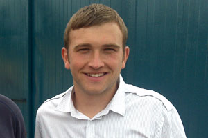 Picture of Danny Alcock.